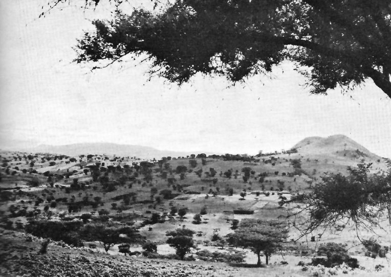 Saio heights in Ethiopia